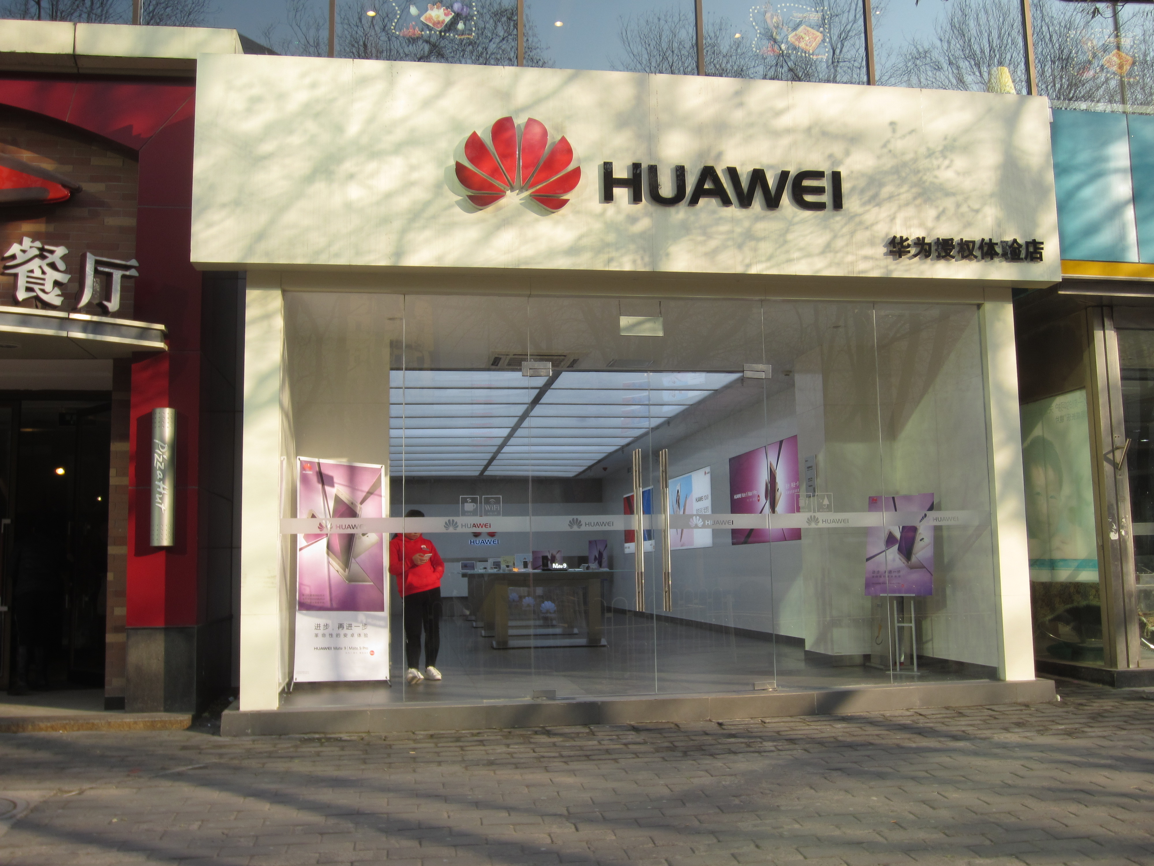 Beijing (November 2016)